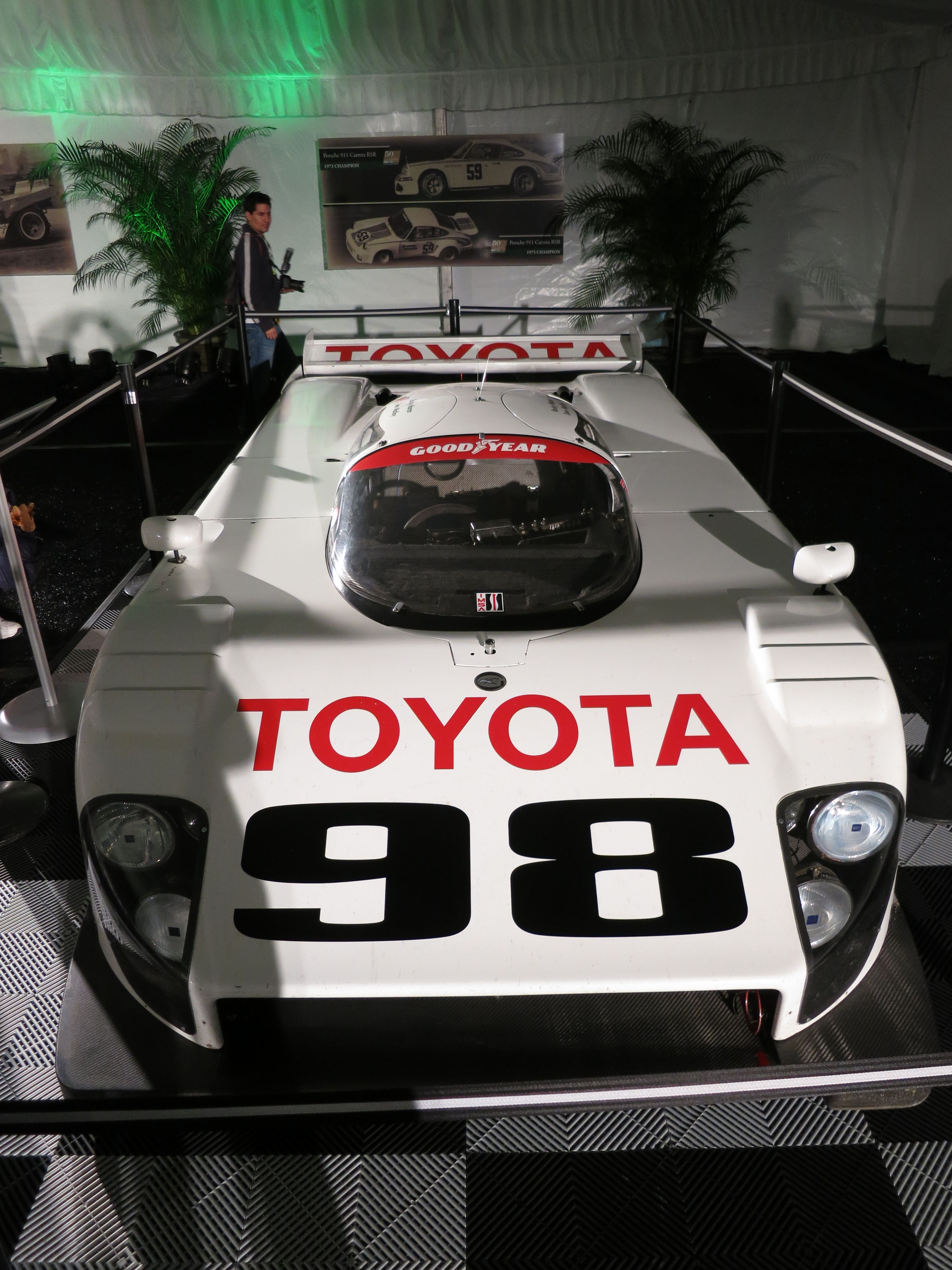 A top front view of a Toyota Eagle MkIII on display at the Rolex 24 at Daytona